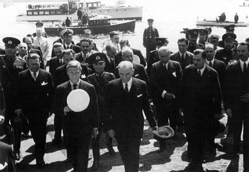 Mustafa Kemal Atatürk, the first president of the Republic of Turkey with Edward VIII of the United Kingdom.